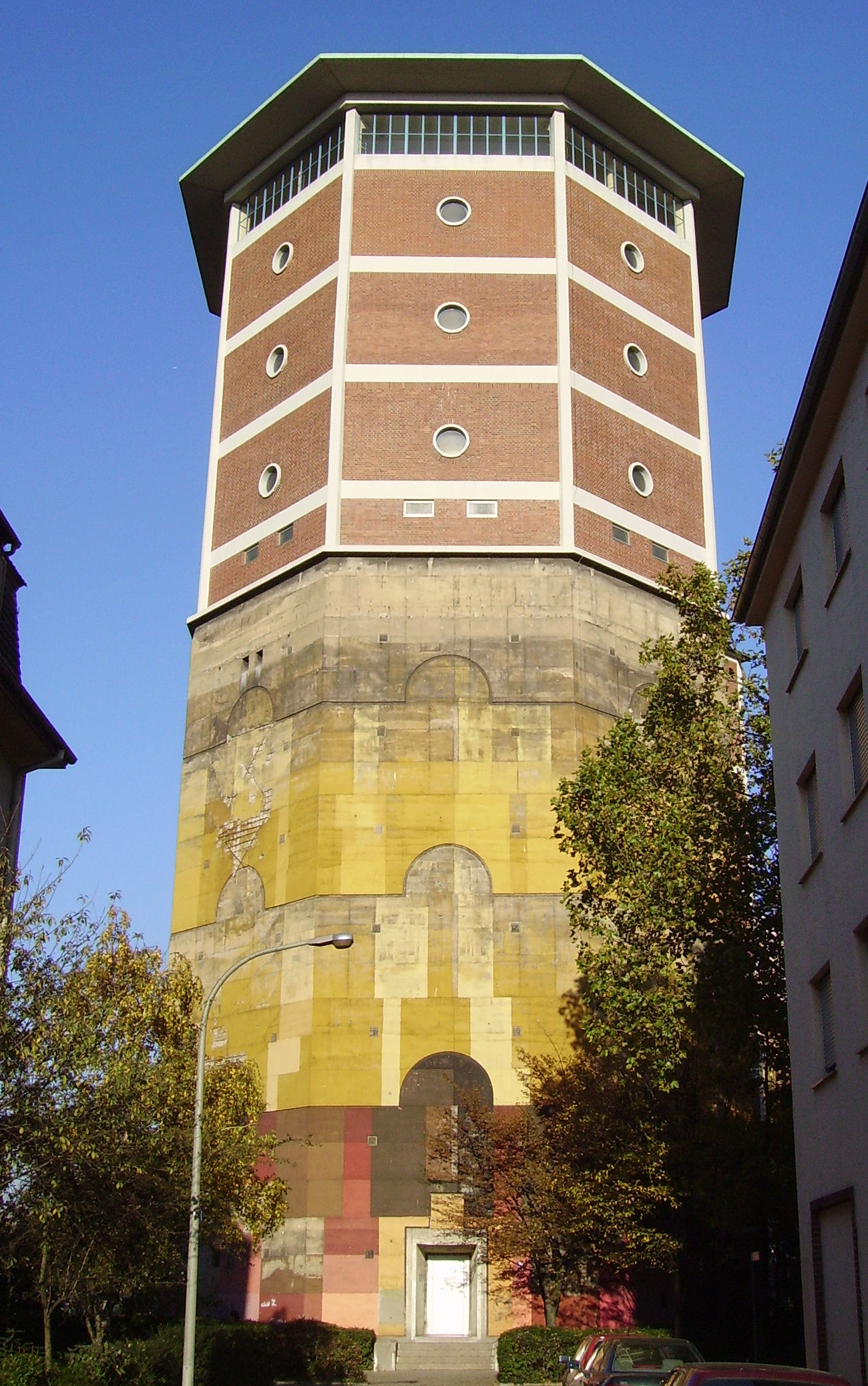 Hemshof, part of Ludwigshafen in Rhineland-Palatinate (Germany)